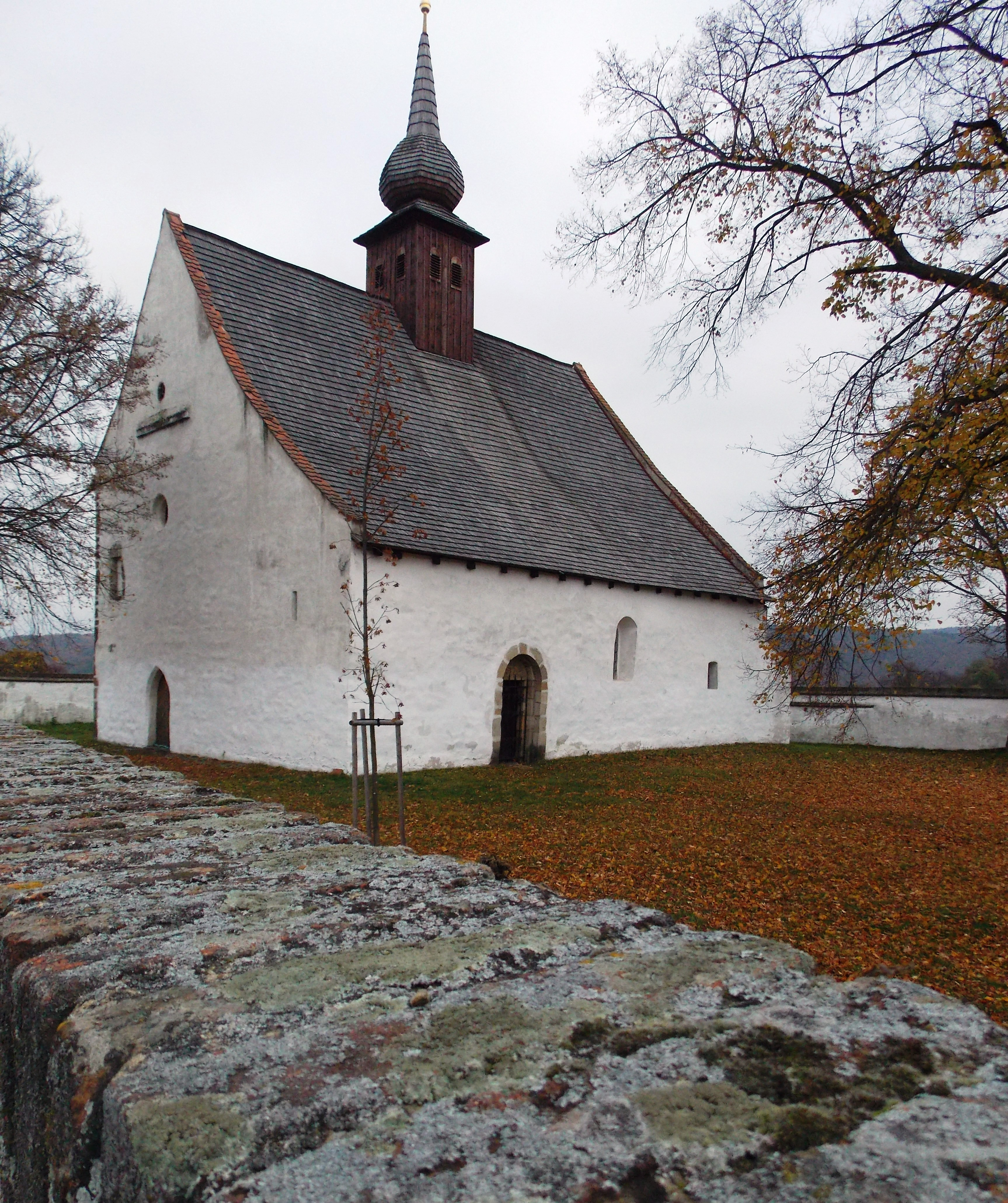 Romanesque church Assumption Virgin Mary, Veveří, Brno Moravia, early 13th C.